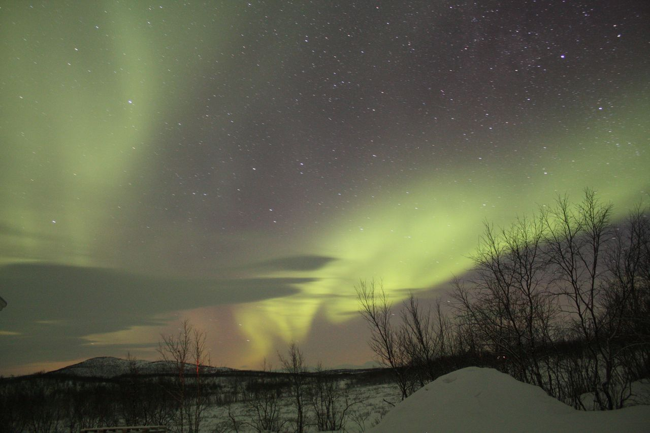 The amazing show of the Northern Lights on the Silvester night 2008/2009 in the Enontekiö region in North Finland.